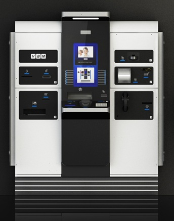 Example of video banking solution that Tümsaş Company promotes